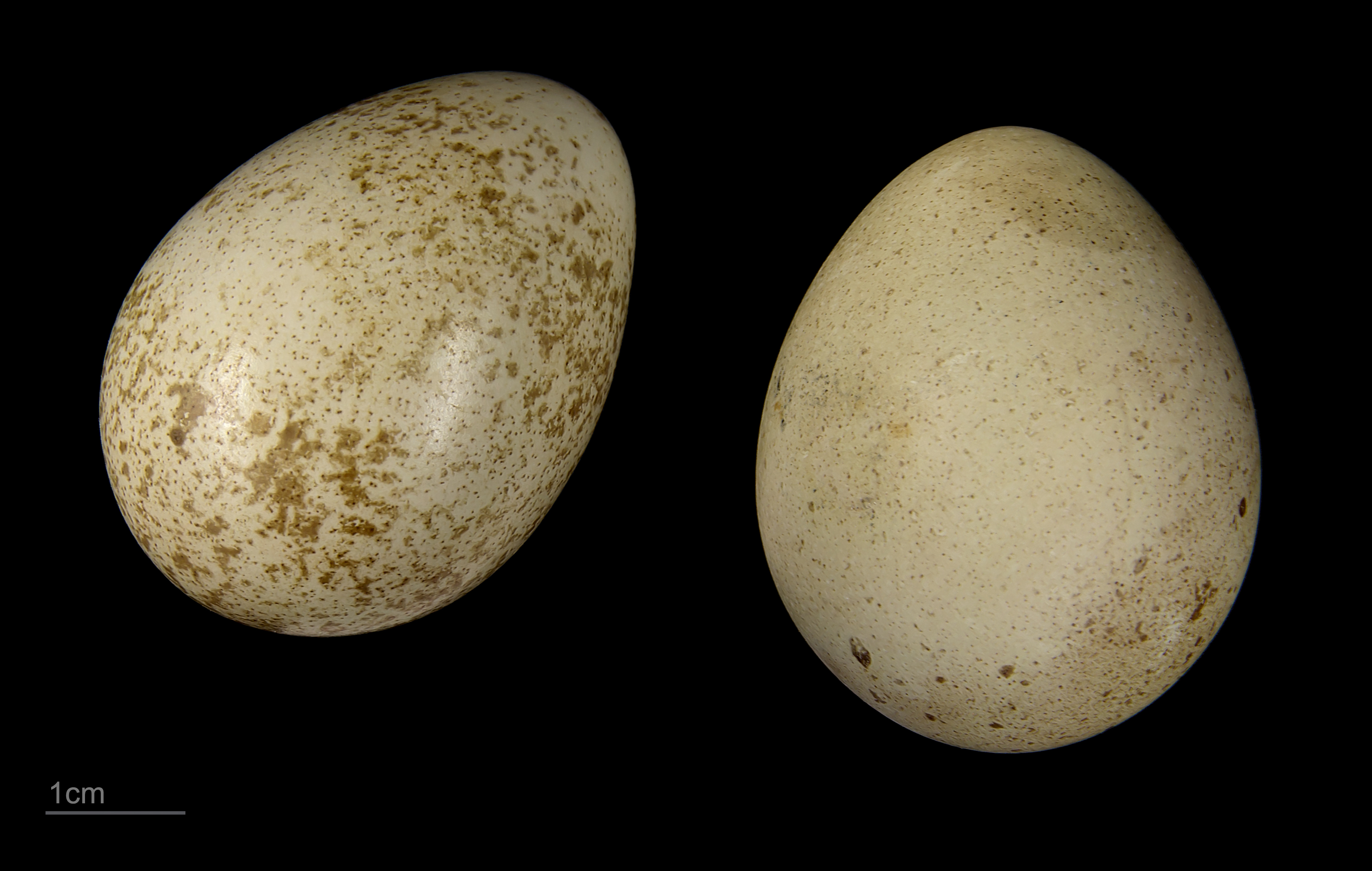 Egg of Alectoris rufa x Alectoris graeca Collection of Jacques Perrin de Brichambaut.